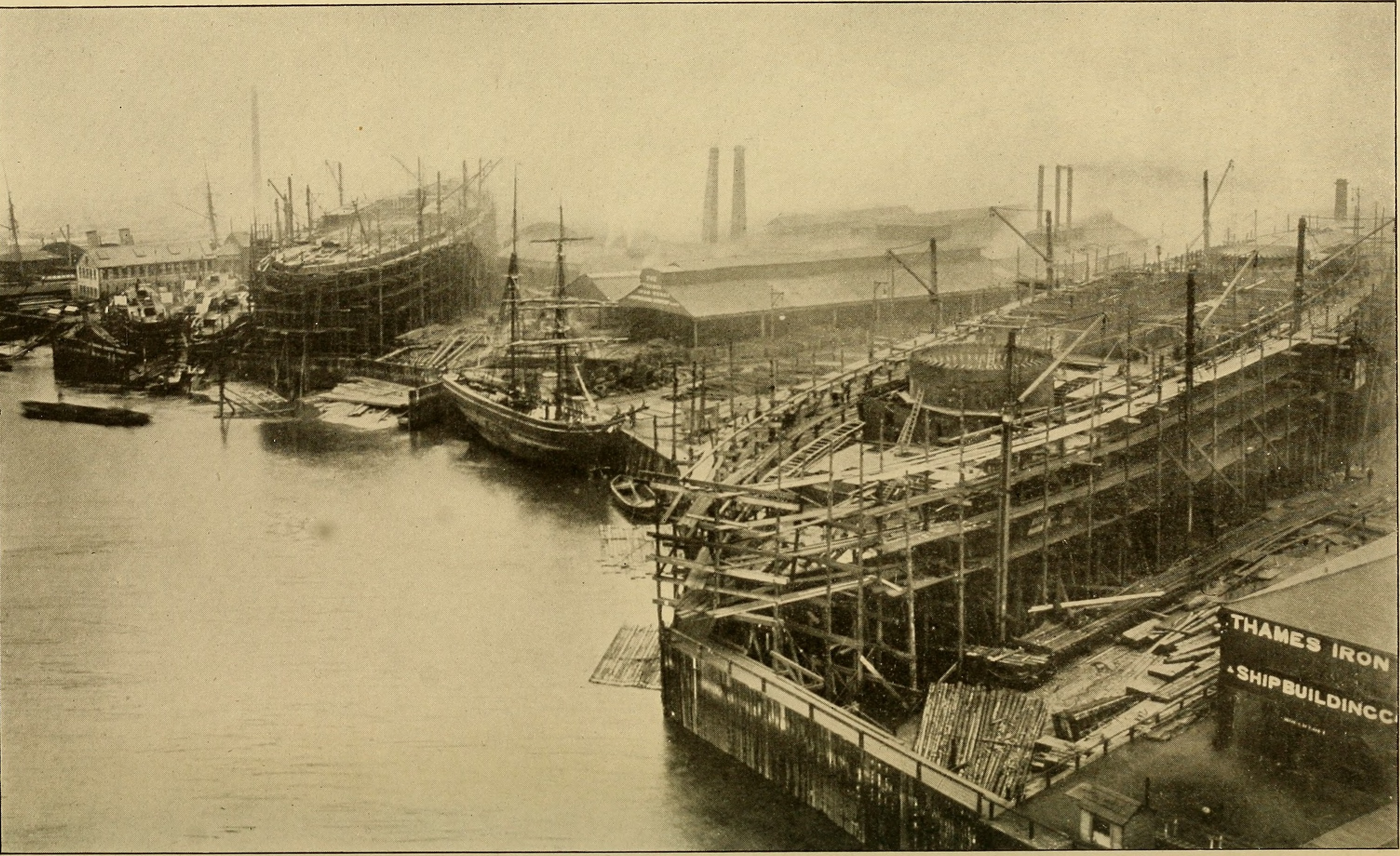 Title: Cassier's magazine Year: 1891 (1890s) Authors: Subjects: Engineering Publisher: New York Cassier Magazine Co. Text Appearing Before Image: BELFAST. THE STEAM HAMMERS HERE SHOWN ARE FROM THE WORKS OF MESSRS. DAVIS & PRIMROSE, LTD., LEITH the annual American output during the same period has been augmented by only 300,000; that is to say, the British rate of increase has been more than double that of the United States. This is the more remarkable because American exports have increased during the same time at a much higher rate than British exports. The carrying trade of the Atlantic has, in fact, passed into British hands, and with it the shipbuilding: trade. zones and the most varying climes, so that the inducement to seek and exploit the resources of other lands is not so strong as in the case of Great Britain,which is practically dependent on extraneous sources for food supplies and the very necessaries of life. The question now suggests itself:—Can the British supremacy be maintained ? How far do present conditions favour the rivalry of foreign competitors ?It is, perhaps, difficult to give a decided 244 CASSIERS MAGAZINE Text Appearing Under Image: THE YARD OF THE THAMES IRON WORKS SHIPBUILDING & ENGINEERING CO., LTD., CANNING TOWN. ON THE EXTREME RIGHT IS SHOWN THE JAPANESE BATTLESHIP "SHIKISHIMA" IN EARLY STAGES Text Appearing After Image: THE BRITISH MERCANTILE MARINE